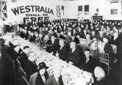 A meeting of secessionists of the Dominion League in Western Australia (c. 1933). The far wall reads 'Westralia shall be free'.